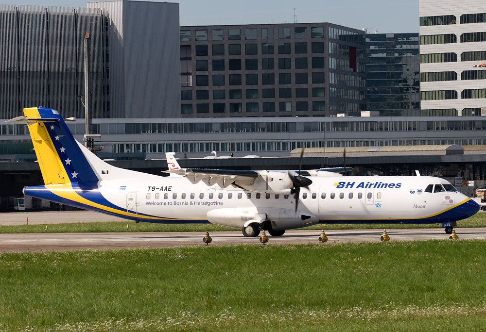 BH Airlines ATR72-212 in Zurich